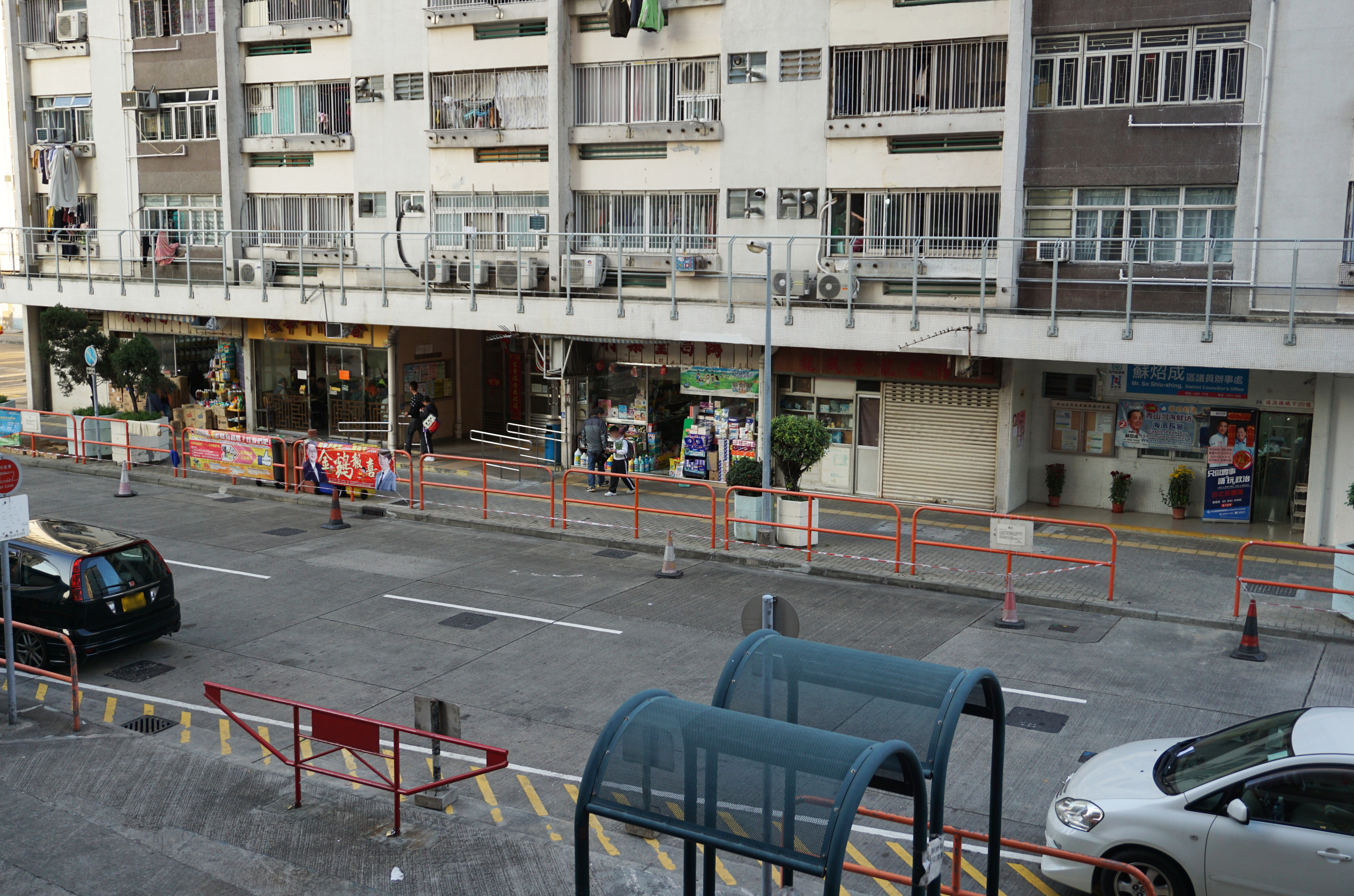 Chun Yu House in Tuen Mun, Hong kong.